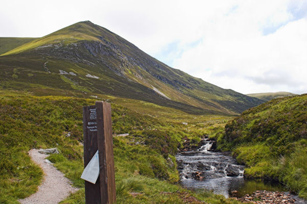 An Cabar. View of An Cabar